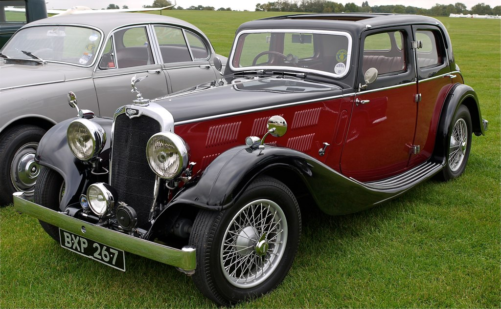 Triumph Gloria 1935 (DVLA) first registered 11 April 1935 1991ccPanasonic G1 14-45 Lens